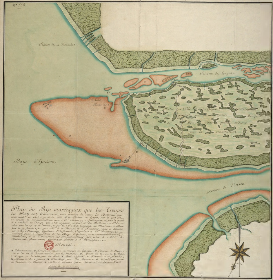 A French map depicting military movements against York Factory on James Bay during the 1782 Hudson Bay expedition.